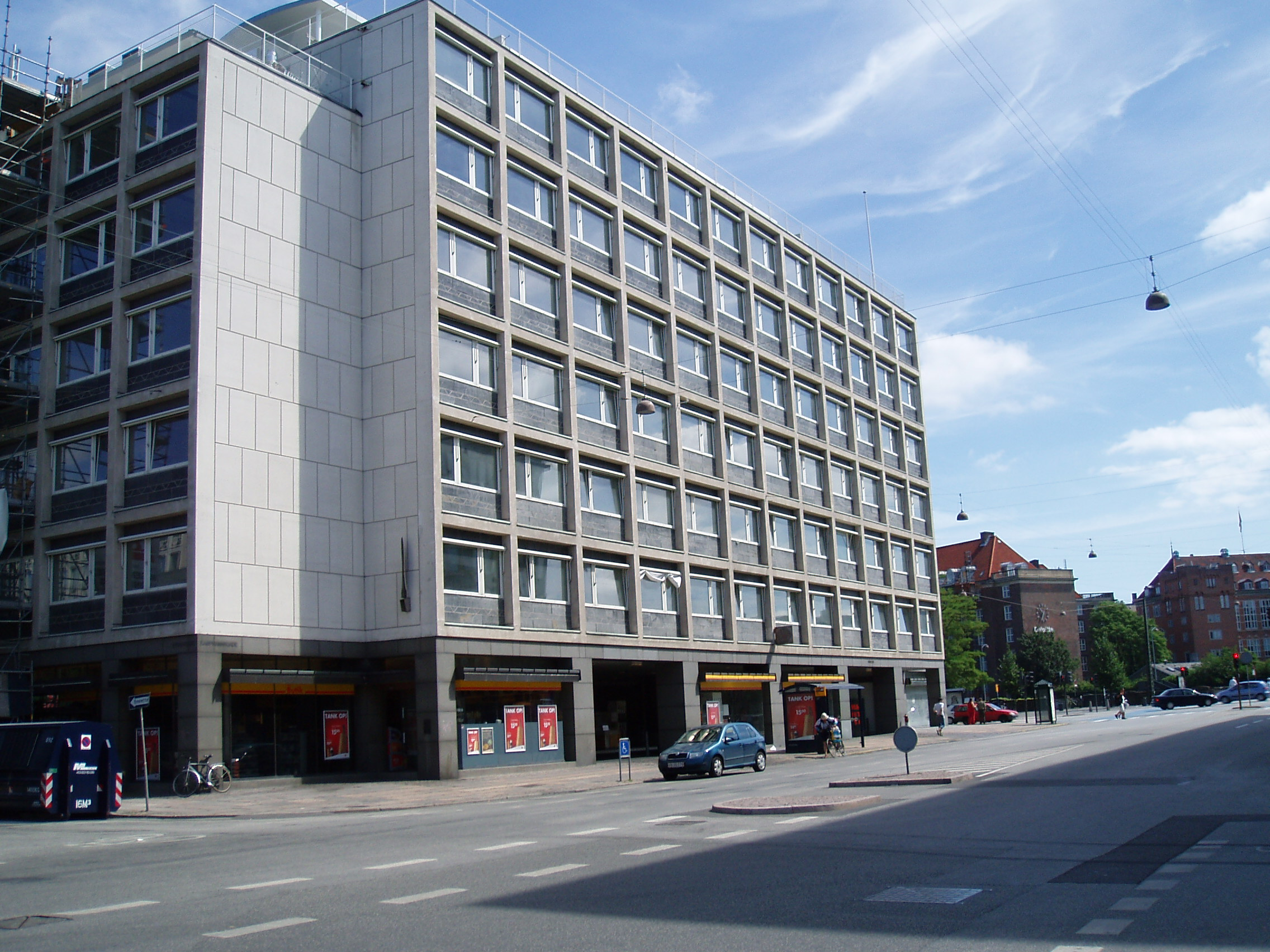 The "Shell House" in Copenhagen. Was a bombing target during World War II as it was headquater for Gestapo. Unfortunately the bombs mainly hit the French school in Frederiksberg, not far from the building.